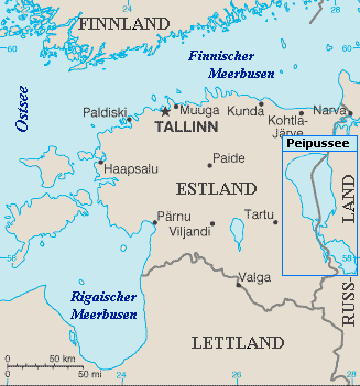 Map of Lake Peipus.